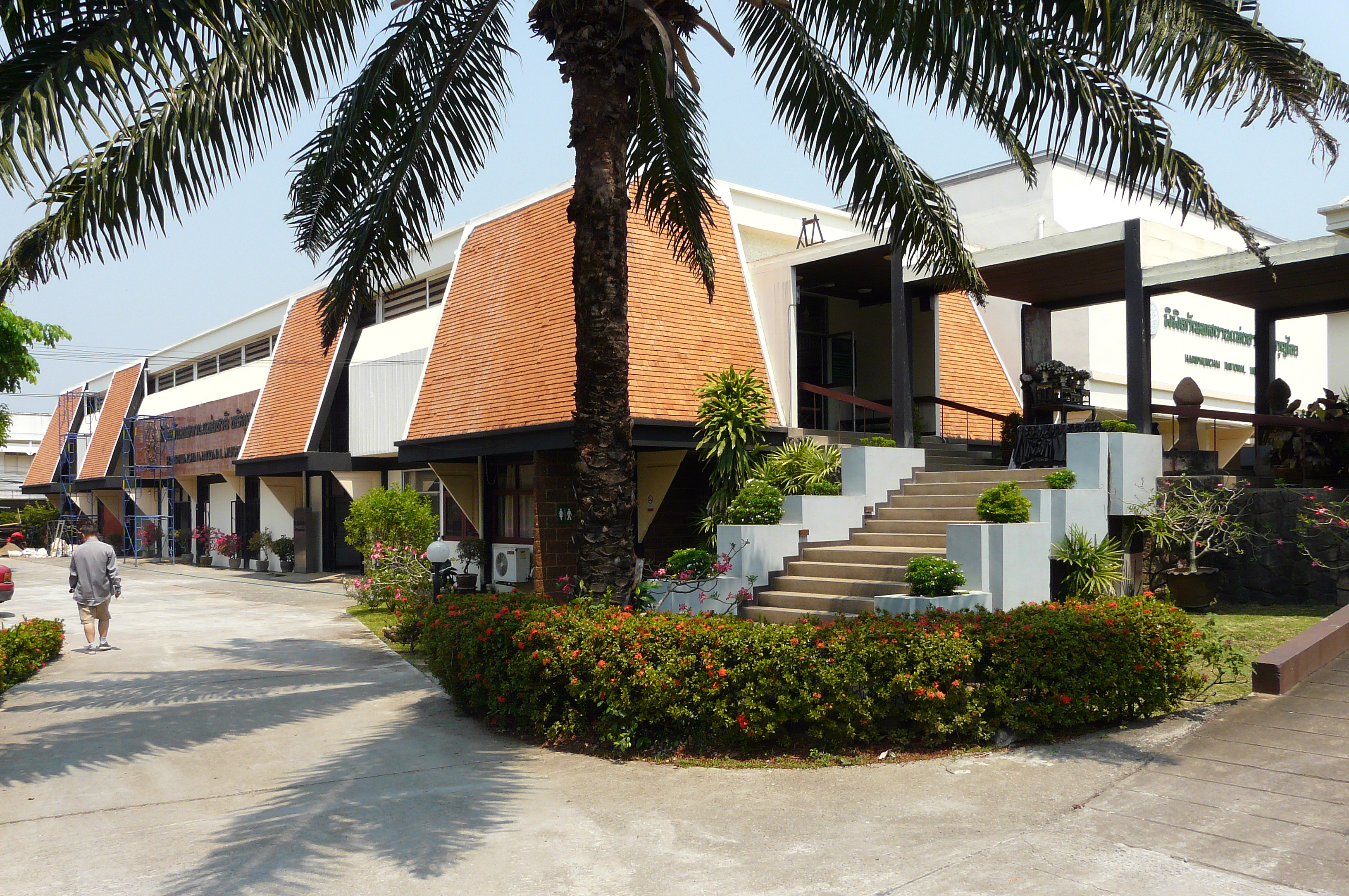 Hariphunchai National Museum, Lamphun, Thailand